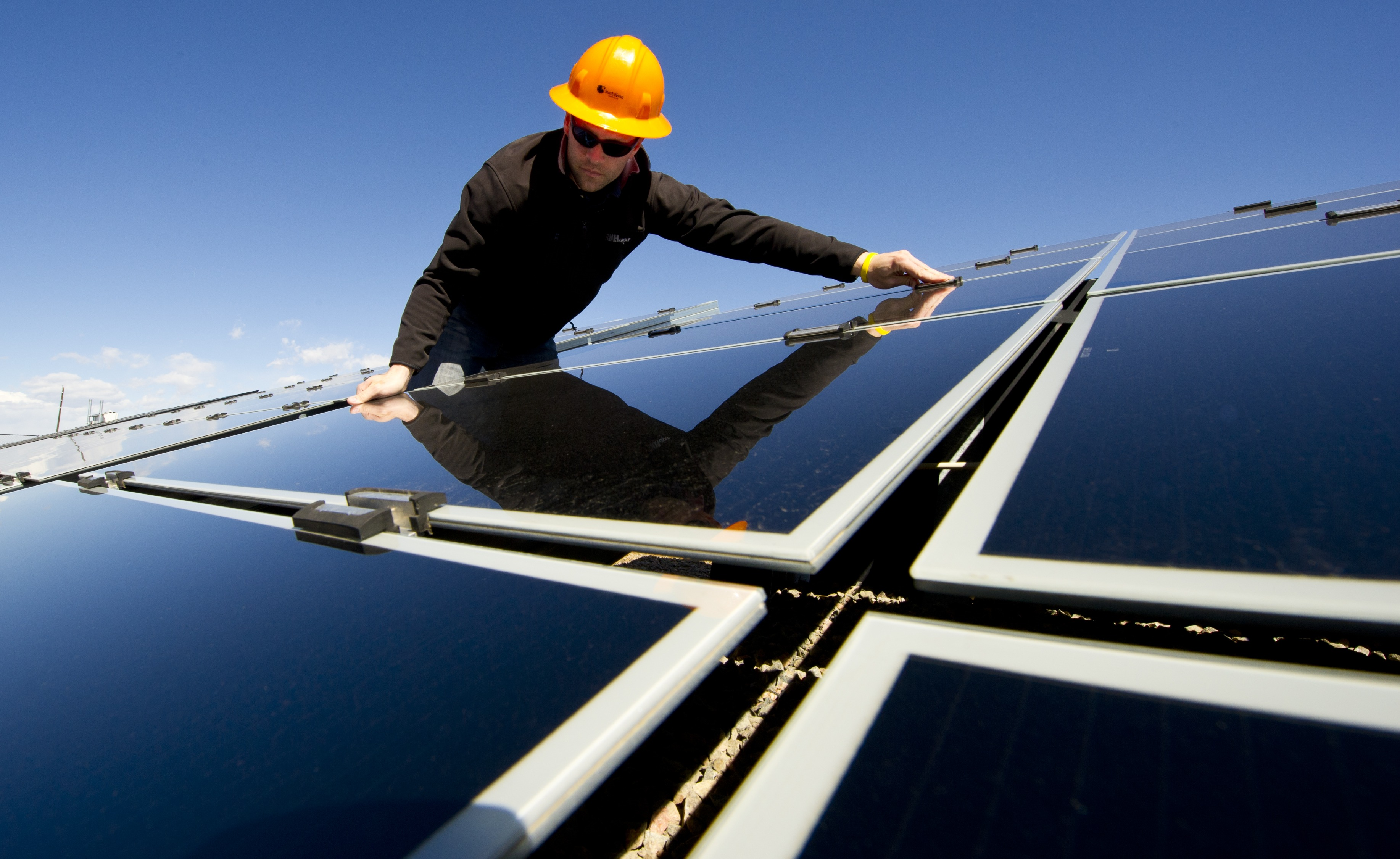 Steven Bohn, an engineer at SunEdison oversees SunEdison's testing facility at SolarTAC in Aurora, CO. The SolarTAC mission is to increase the efficiency of solar energy products and rapidly deploy them to the commercial market. Photo by Dennis Schroeder.